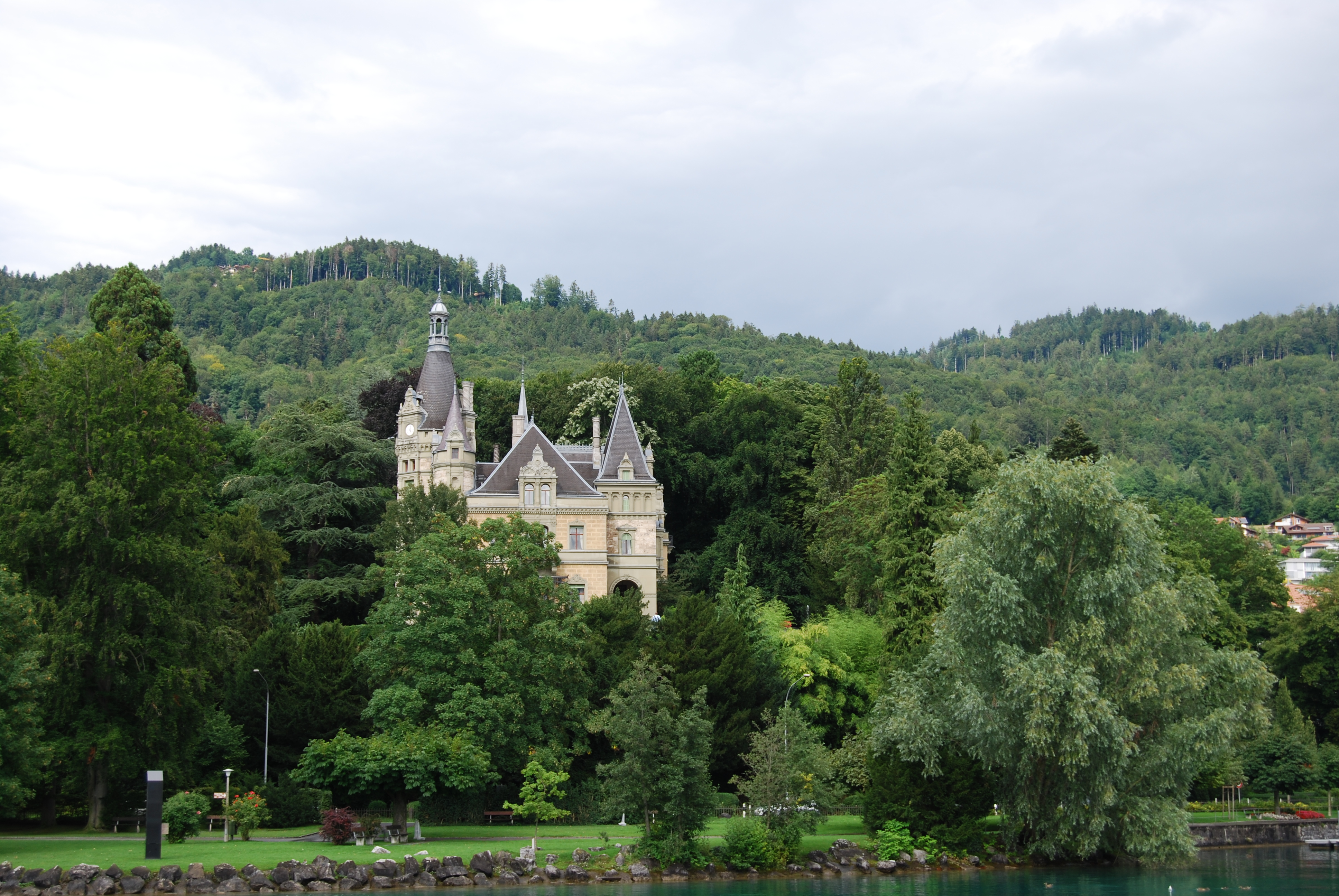 Castle Hünegg at Hilterfingen, canton of Bern, Switzerland